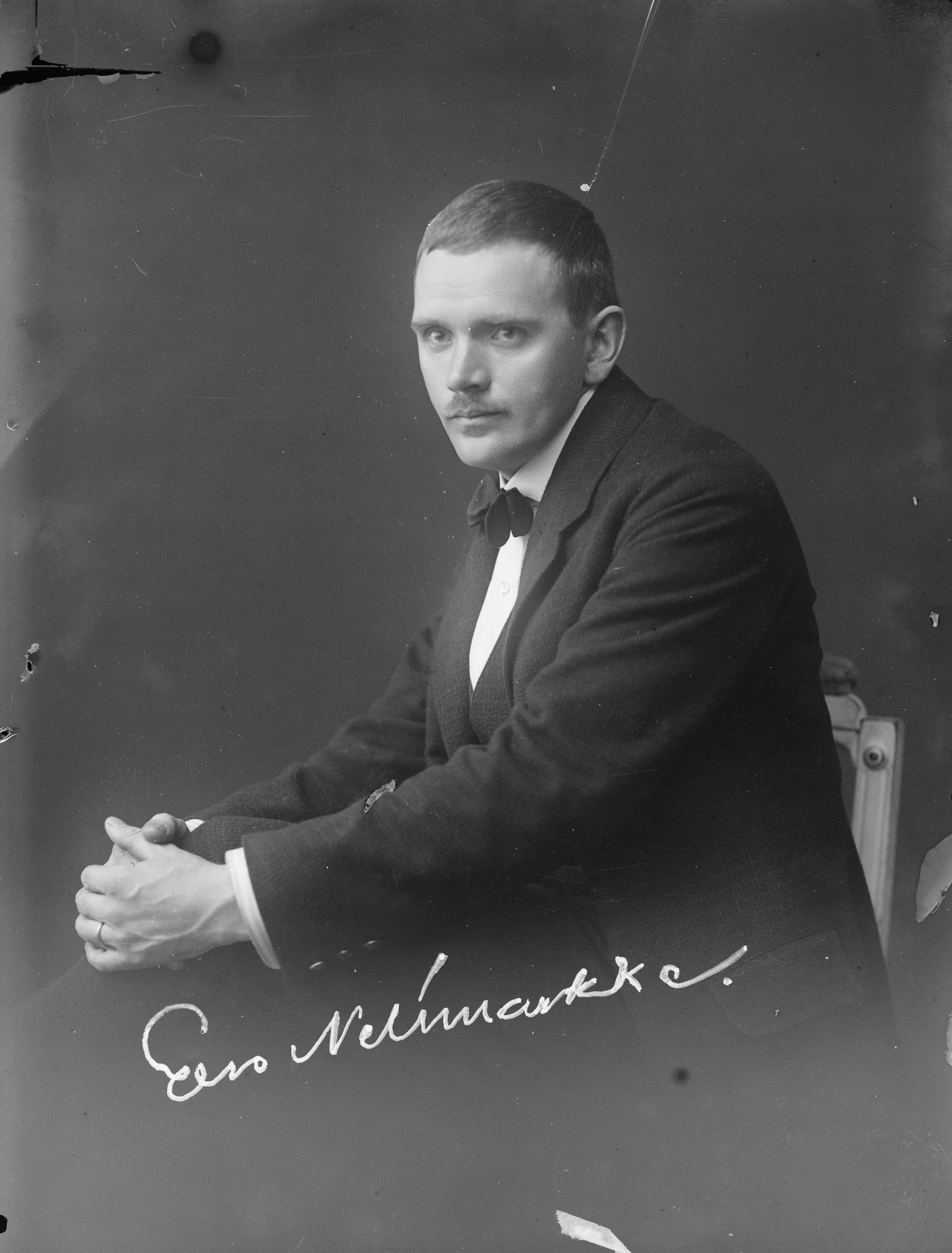 Photograph of the Finnish painter Eero Nelimarkka (1891–1977).